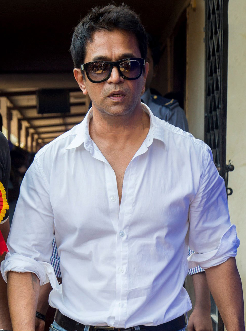 Arjun at TFPC ELections